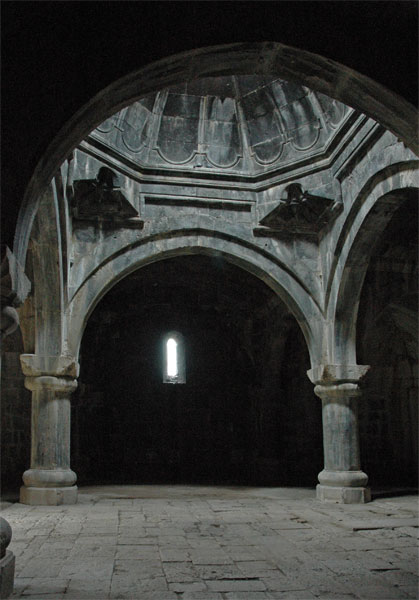 Haghpat monastery. Hamazasp. Armenia